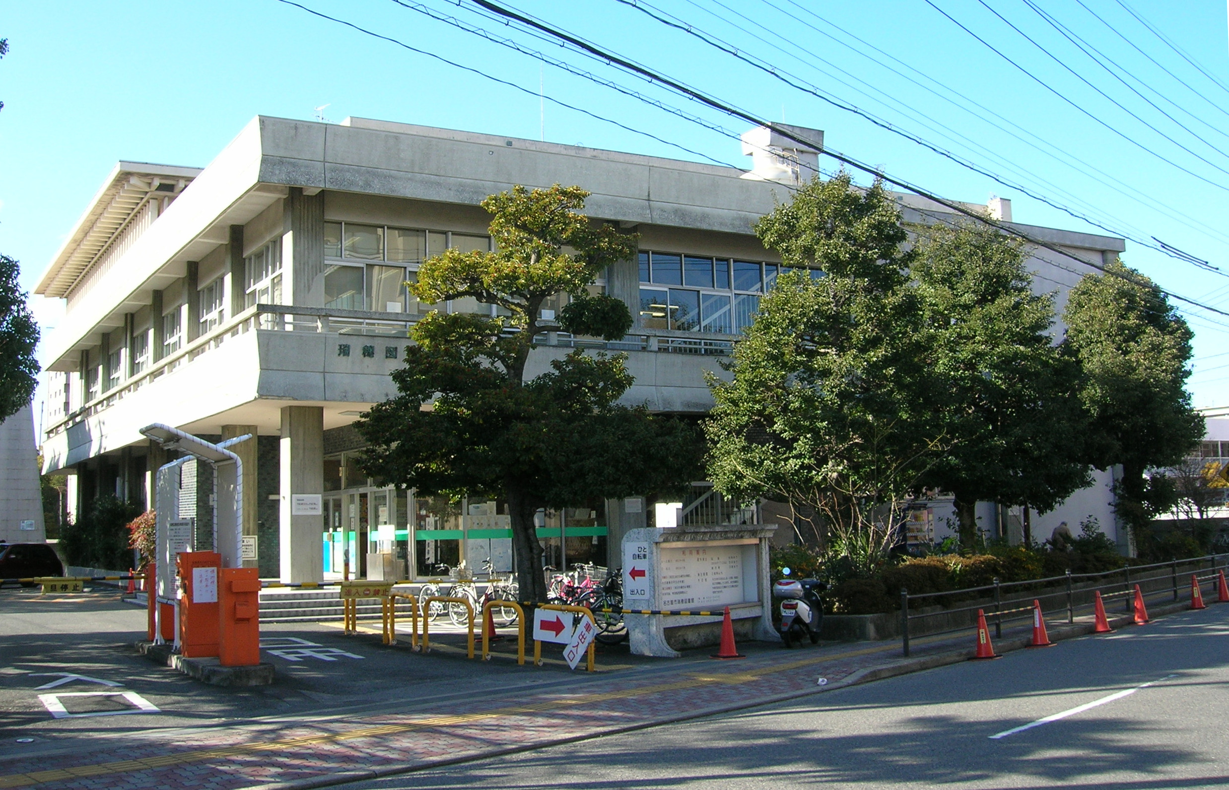 Nagoya City Mizuho library. Loc: Mizuho-ku, Nagoya city, Aichi Prefecture, Japan. 名古屋市瑞穂図書館 撮影場所 愛知県名古屋市瑞穂区